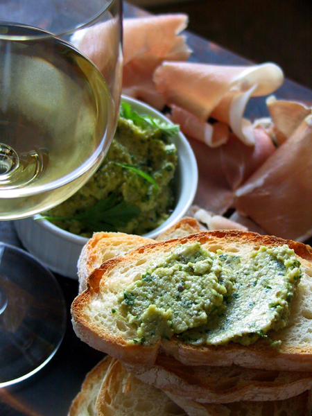 The Italian wine Soave from the Veneto region paired with bread and dip.